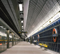 Multi-award-winning design of the Jubilee line extension at London Bridge station (2007).